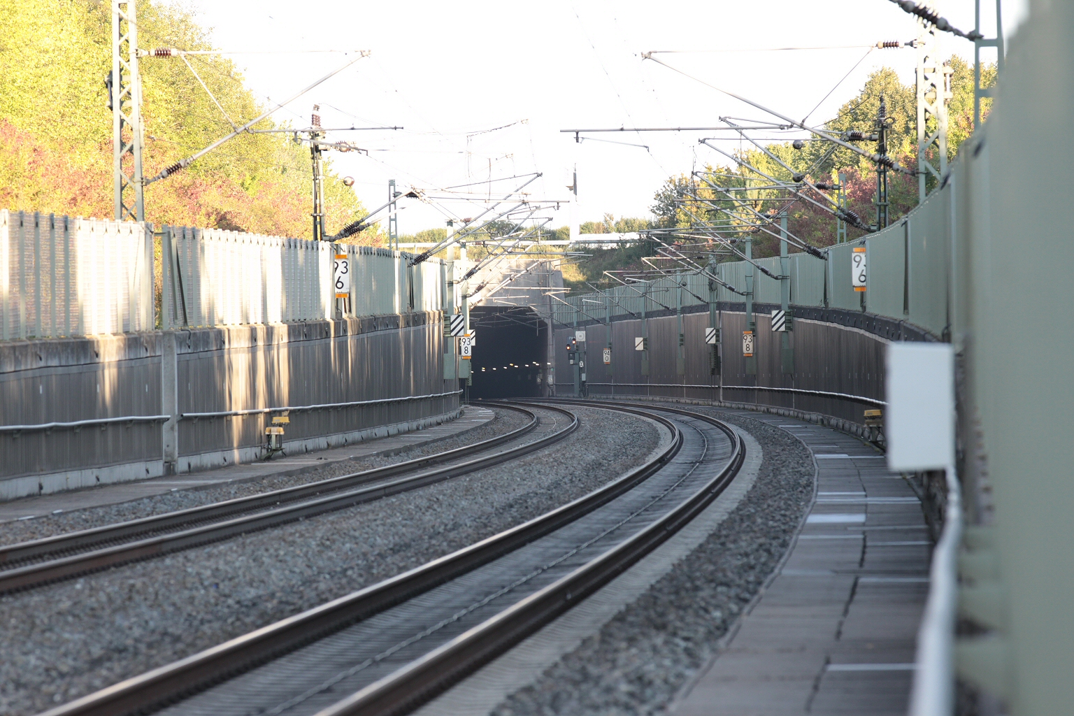 Northwest portal of the Langes Feld Tunnel on the Mannheim–Stuttgart high-speed line